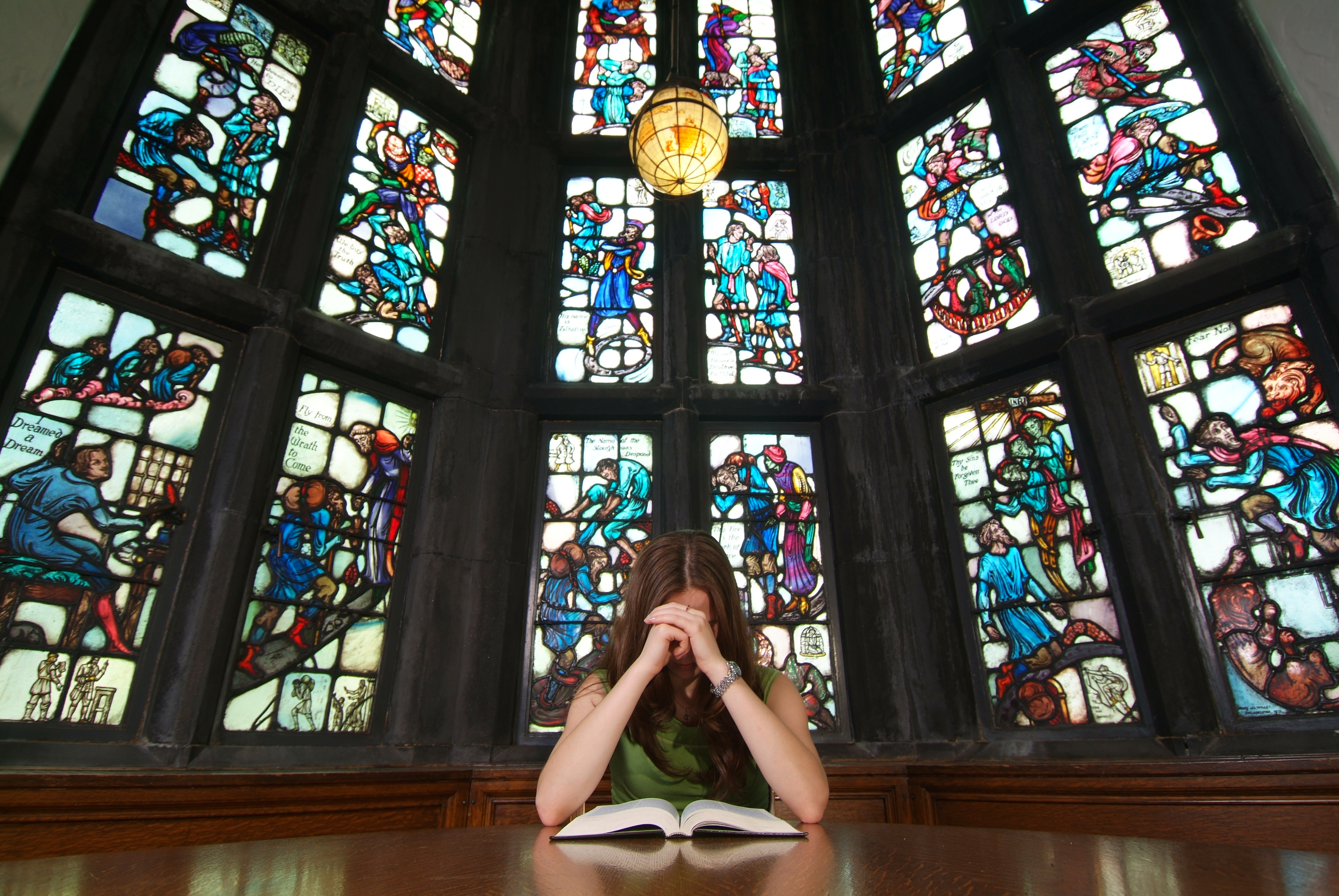 Image of Willet Stained Glass window located in McCartney Library, depicting Bunyan's Pilgrim's Progress, at McCartney Library, Geneva College, in Beaver Falls, Pennsylvania, United States.